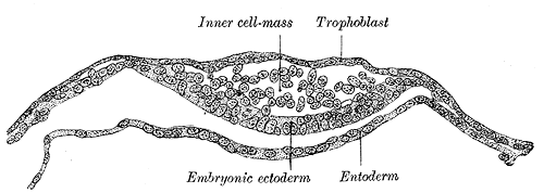 Section through embryonic disk of Vespertilio murinus. (After van Beneden.)